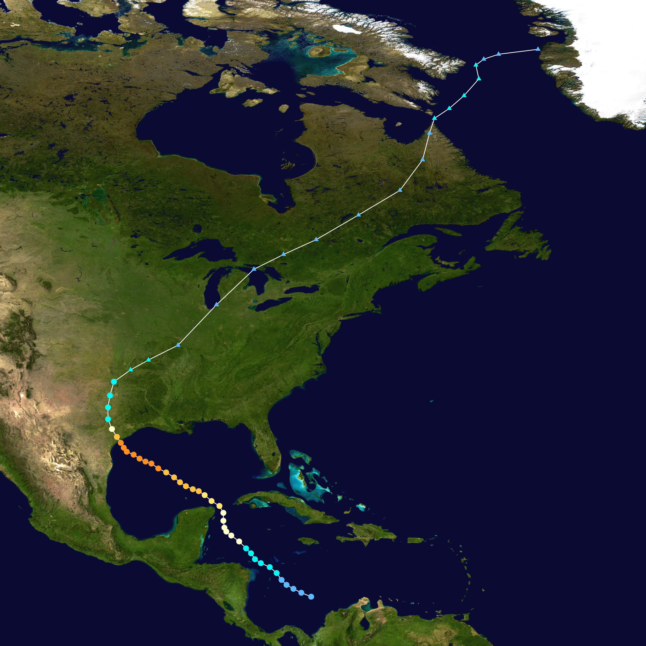 Track map of Hurricane Carla of the 1961 Atlantic hurricane season. The points show the location of the storm at 6-hour intervals. The colour represents the storm's maximum sustained wind speeds as classified in the Saffir–Simpson scale (see below), and the shape of the data points represent the nature of the storm, according to the legend below. Saffir–Simpson scale Tropical depression≤38 mph≤62 km/h Category 3111–129 mph178–208 km/h Tropical storm39–73 mph63–118 km/h Category 4130–156 mph209–251 km/h Category 174–95 mph119–153 km/h Category 5≥157 mph≥252 km/h Category 296–110 mph154–177 km/h Unknown Storm type Tropical cyclone Subtropical cyclone Extratropical cyclone / Remnant low / Tropical disturbance / Monsoon depression